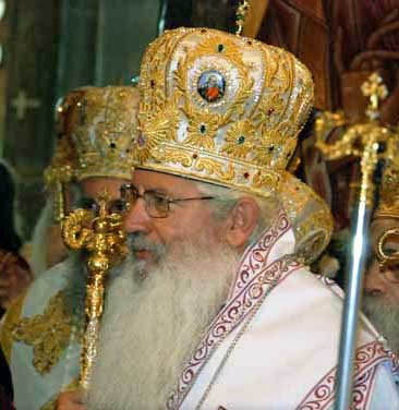 Metropolitan of Thebes and Levadia George